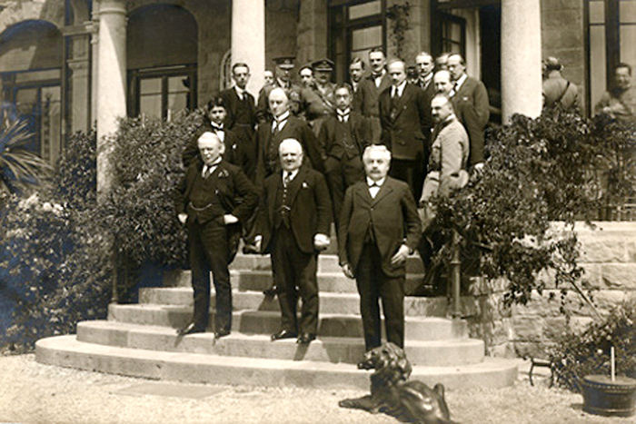 The 1922 Genoa Conference. Lloyd George on front row, left.